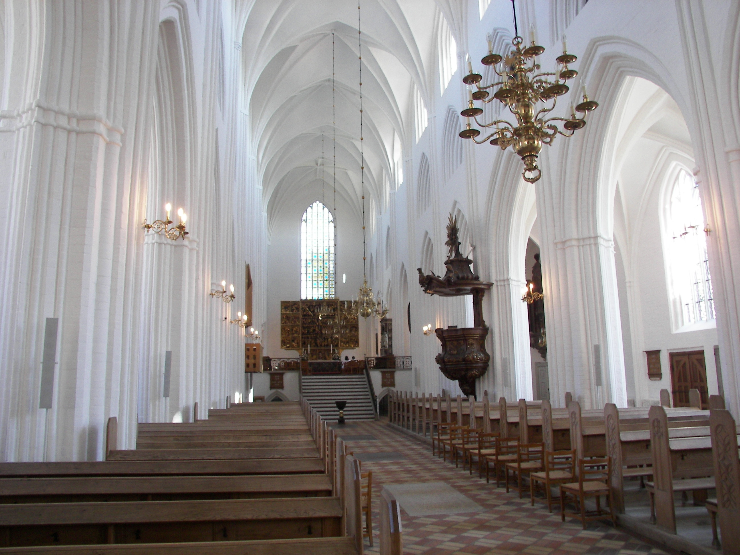 The interior of Odense cathedral, Denmark